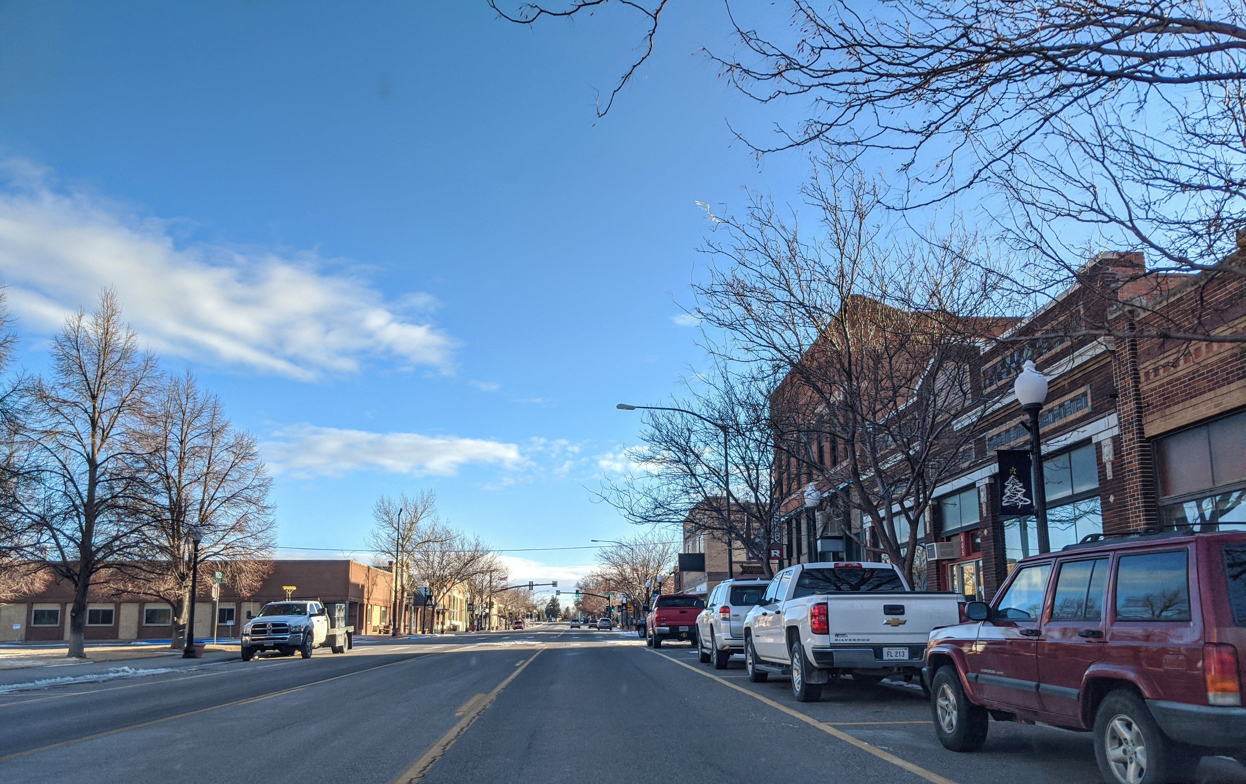 View of Wheatland Wyoming from 9th St. driving South